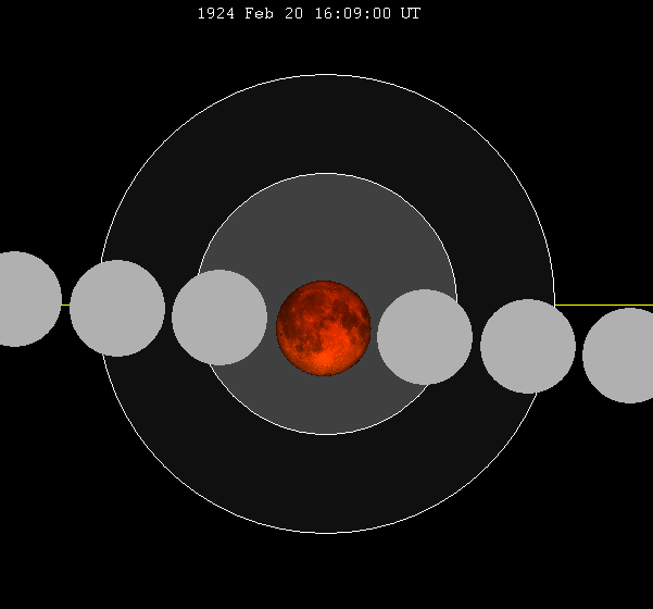 February 1924 lunar eclipse chart of moon's lunar eclipse path through the earth's shadow. thumb